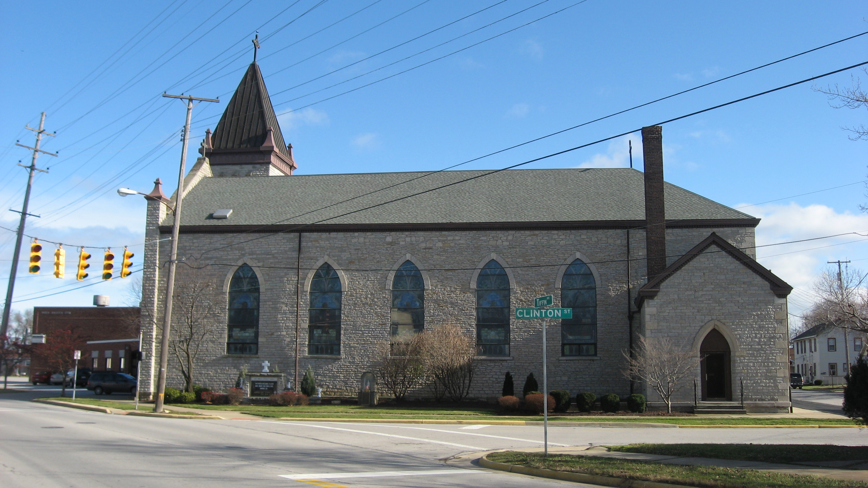 Western side of Holy Angels Catholic Church, located at 428 Tiffin Avenue (U.S. Route 6) in Sandusky, Ohio, United States. Built in 1841, it is listed on the National Register of Historic Places.